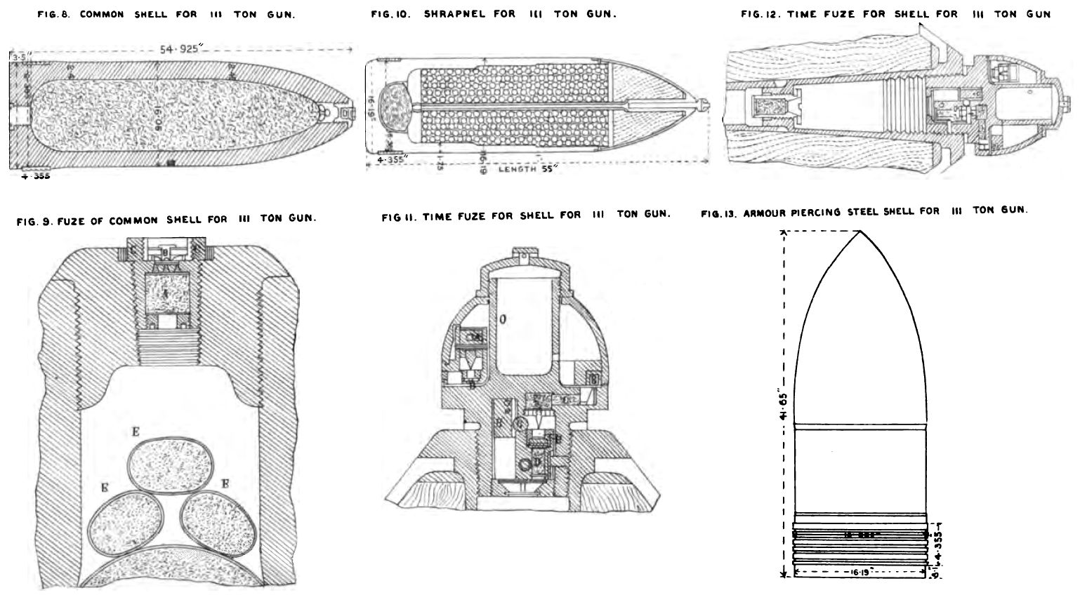 Diagrams showing projectiles for British BL 16.25 inch Mk I naval gun.